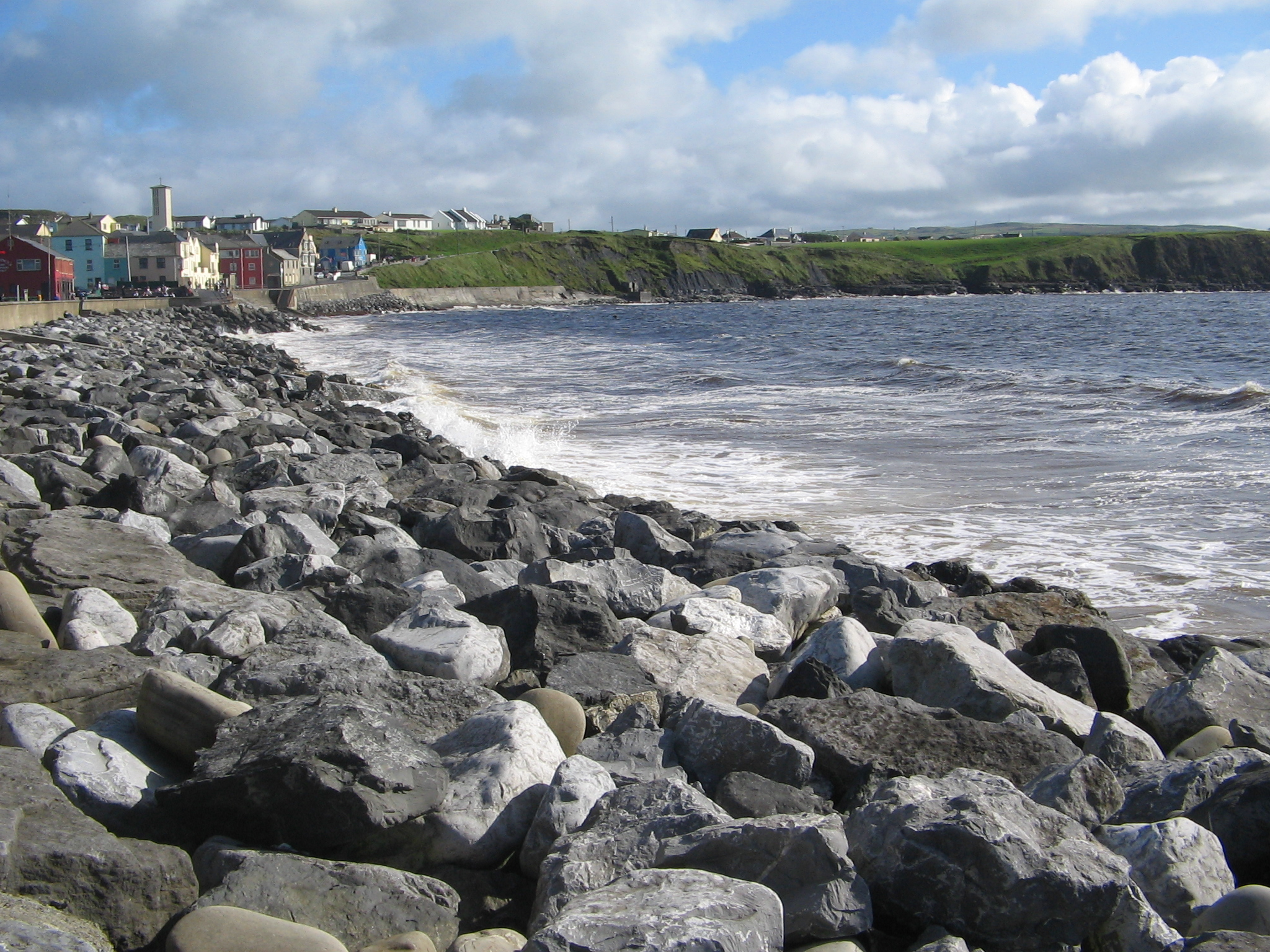 Lahinch